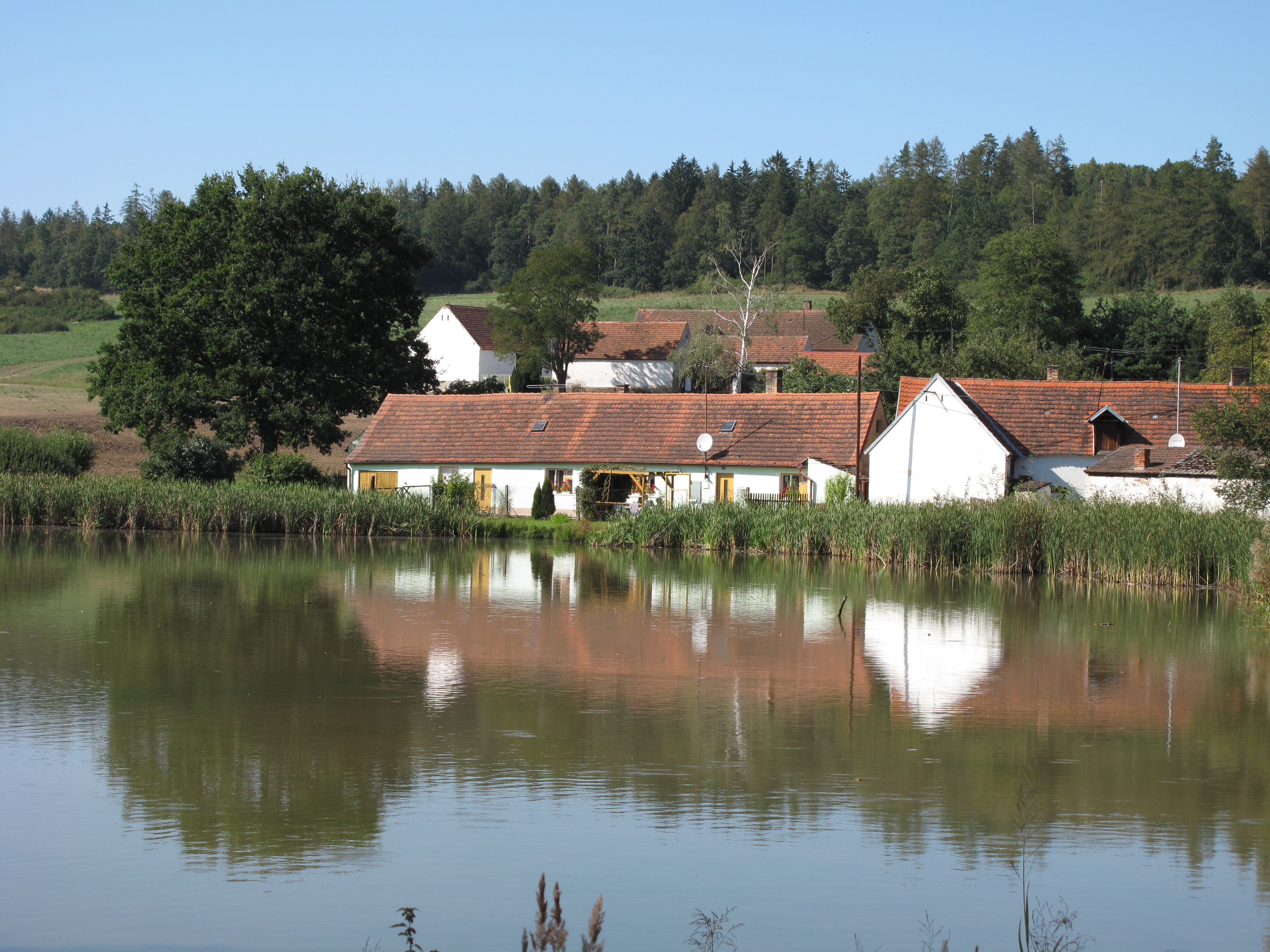 Cottages and the bank of Nesejd Pond in Nová Ves village (Čížová municipality), Písek District, Czech Republic.